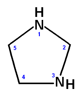 Chemical Structure of Imidazolidine H Padleckas created this image file on September 13, 2005 especially for use in the article "Imidazole" in Wikimedia. H Padleckas 05:59, 14 September 2005 (UTC)